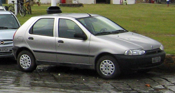 An early Fiat Palio seen in Paraty, Brazil. Paraty floods in places during high tide, as can be seen in the foreground.